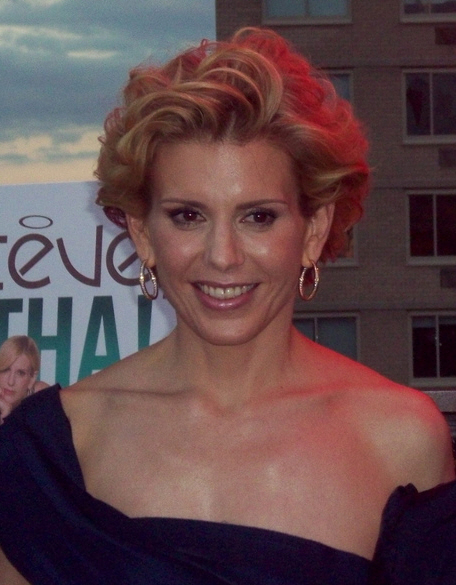 Alexis and Martha Martha Stewart and Alexis Stewart at the Whatever, Martha premiere party.